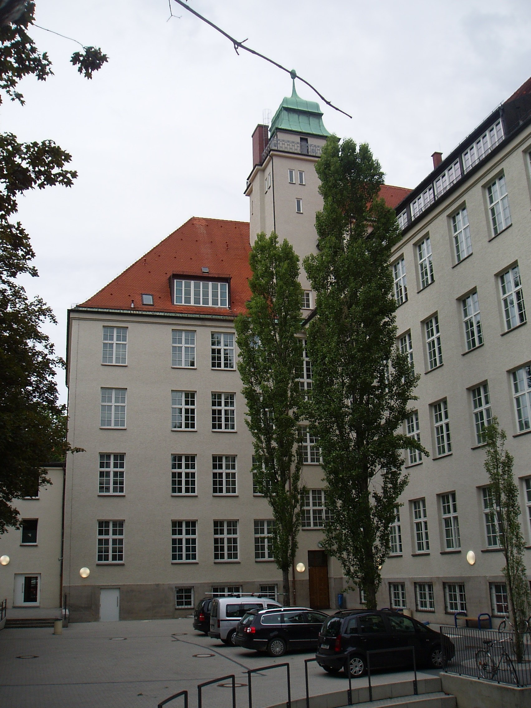 Gisela Gymnasium main building viewed from courtyard